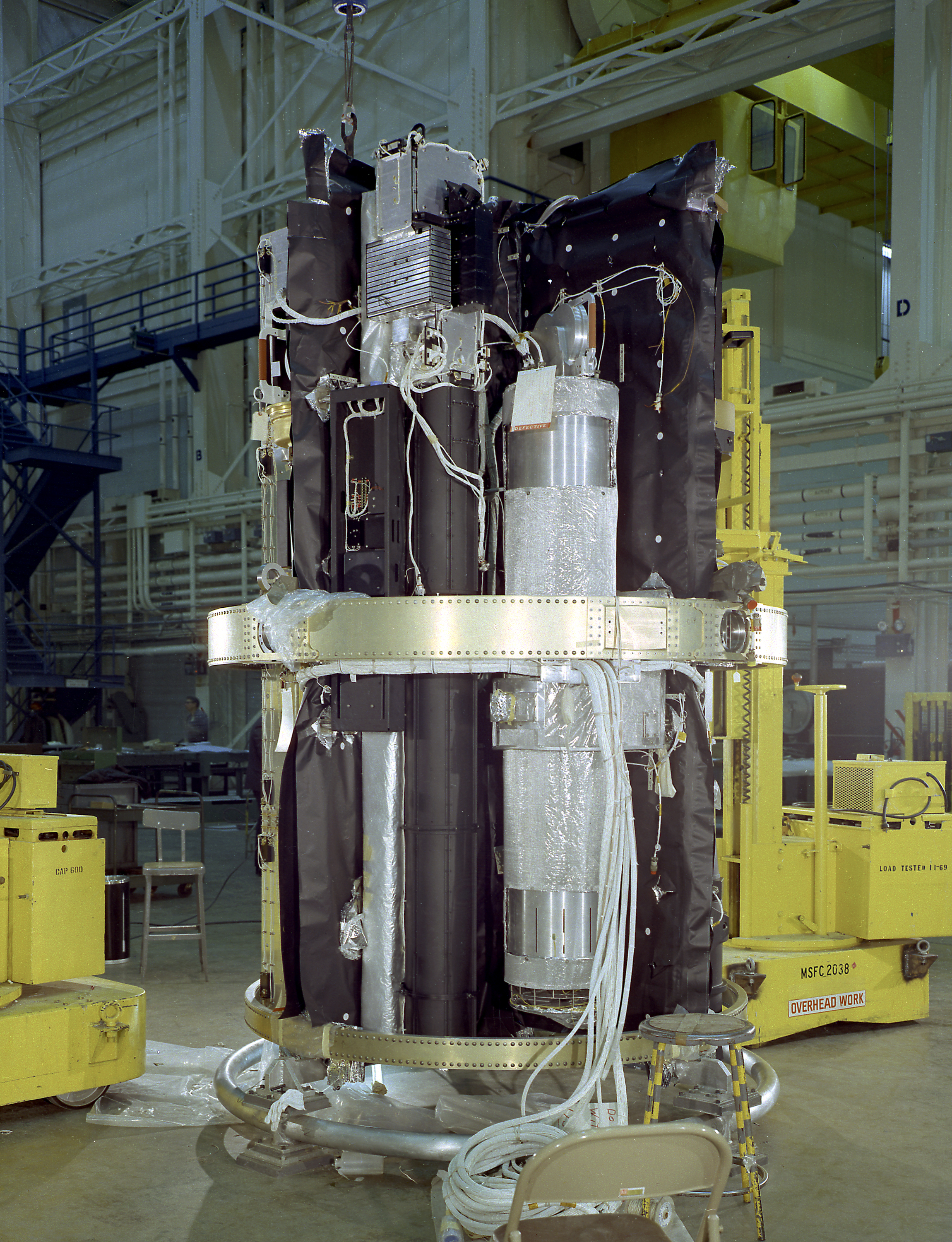 The Apollo Telescope Mount (ATM), designed and developed by the Marshall Space Flight Center, served as the primary scientific instrument unit aboard the Skylab. The ATM contained eight complex astronomical instruments designed to observe the Sun over a wide spectrum from visible light to x-rays. This image shows the ATM spar assembly. All solar telescopes, the fine Sun sensors, and some auxiliary systems are mounted on the spar, a cruciform lightweight perforated metal mounting panel that divides the 10-foot long canister lengthwise into four equal compartments. The spar assembly was nested inside a cylindrical canister that fit into the rack, a complex frame, and was protected by the solar shield.